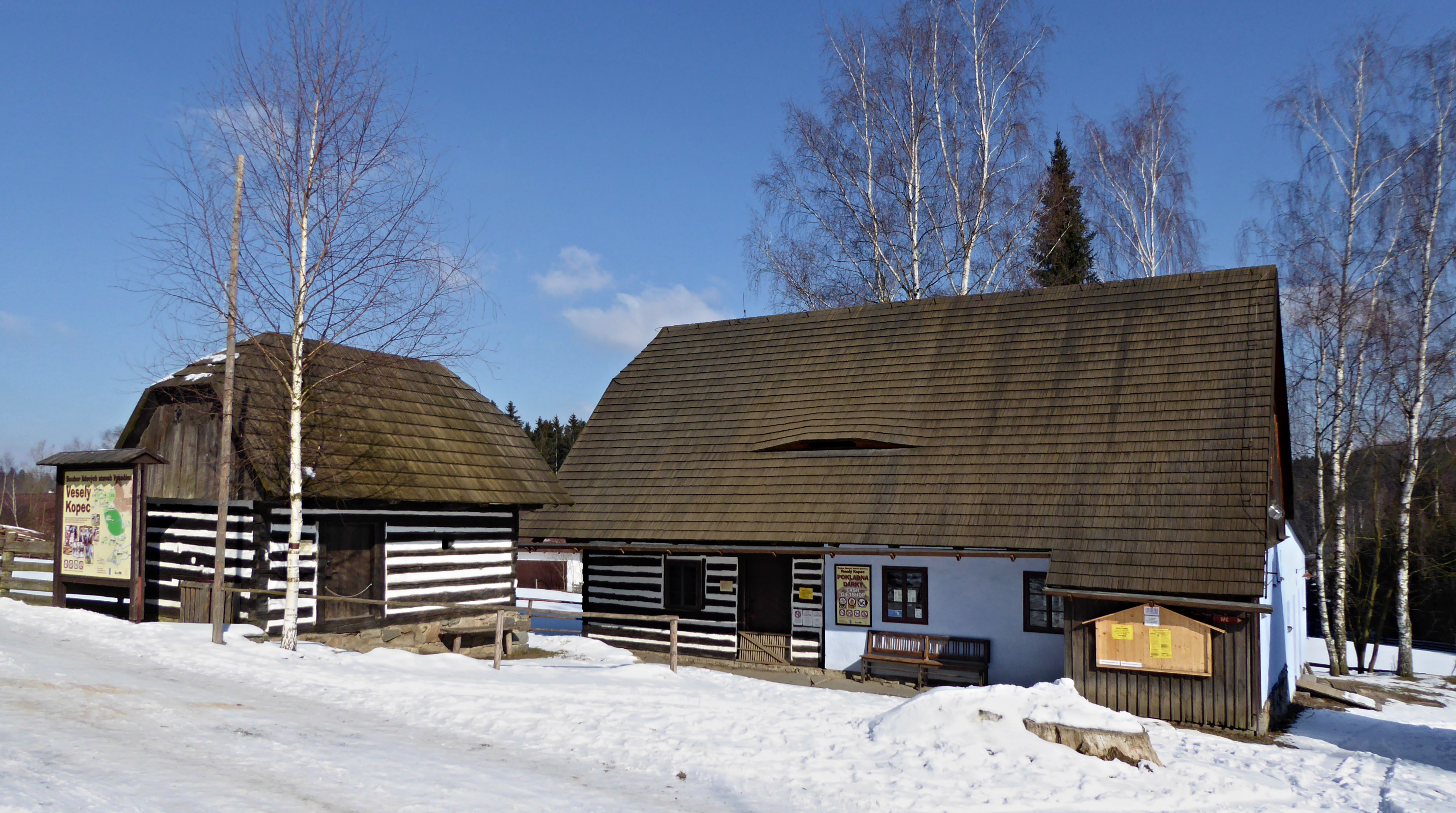 National Open-air Museum in the Czech Republic, outdoor exposition of folk architecture with name Merry Hill in the Open-air Museum Highland (in the years 1982–2018 called the Set of Folk Buildings Highland). In the photo is a granary for grain and the farmhouse from the vicinity of Hlinsko, comes from the ethnographic area with name "Horácko" (from the nordic part with name Czech "Horácko"). The grain granary was transferred from the small village of Stan (part of the village Vítanov), the farm is a copy of the original building. The object serves the needs of the museum. In the object is also a souvenir shop and cash register for entry into the exposition. The exposition is located in the small hamlet Merry Hill (Czech name: Veselý Kopec), in the part of a village Highland (Czech name: Vysočina), on a territory of the Pardubice Region (Czech name: Pardubický kraj). In the area of a outdoor exposition green touristic route of the Czech Tourists Club, the all-year-round accessible (section trail, Czech names: Králova Pila – Veselý Kopec – Dřevíkov). In the route also Homeland trail the Landscape of Chrudimka River, point number 9 – Merry Hill. Photo location: Czechia, Pardubice Region, municipality Vysočina, small hamlet Merry Hill, the landscape area "Stružinecká" knoll hill (geomorphological district), azimuth 0°. Tourist Map (aerial view), see Czech description. External link: Merry Hill (Czech name: Veselý Kopec) – english official web presentation, see